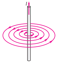 Ֆիզիկա, մագնիսական դաշտի ինդուկցիայի գծեր